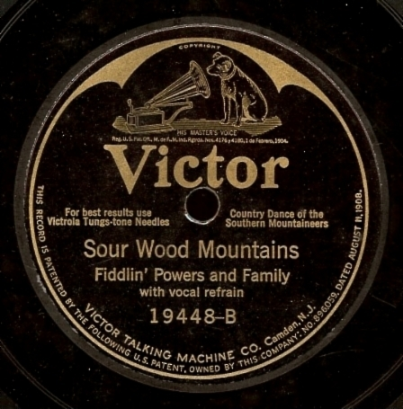 Sour Wood Mountains by Fiddlin' Powers and Family, Victor 1924.